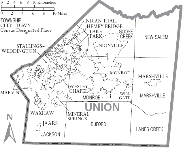 Map of Union County, North Carolina, United States with township and municipal boundaries